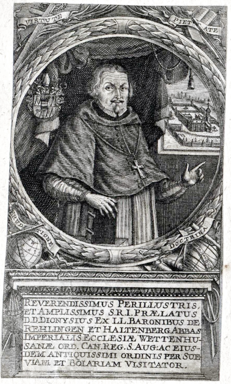 Dionysius von Rehlingen bzw. Rehlinger (1610−1692), Propst des Augustinerchorherren-Reichsstiftes Wettenhausen 1658−1692